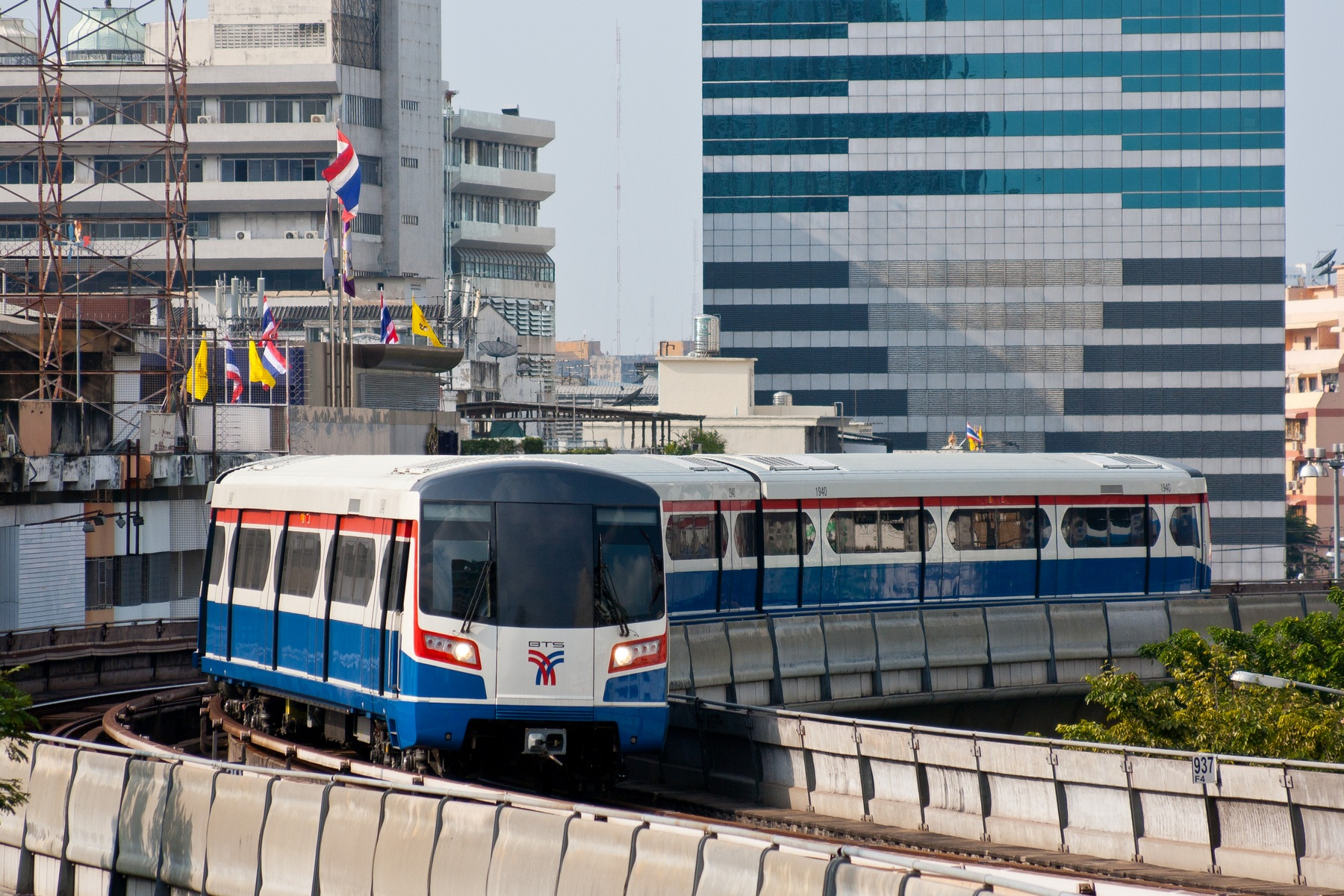 Bangkok Skytrain. A new train manufactured by Changchun Railway Vehicles approaches Chong Nonsi station.